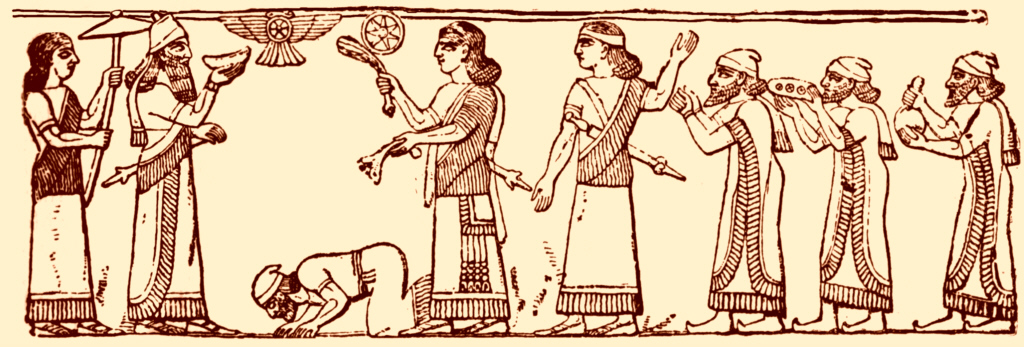 King Jehu of Israel bows before Shalmaneser III of Assyria. With permission from